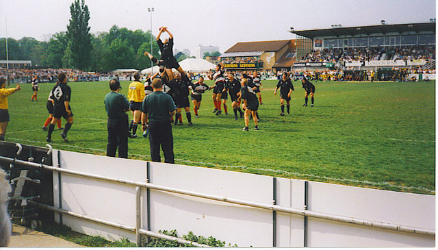 London Irish's Final Game at Sunbury Playing here against Saracens, Irish have since played home games at Reading FC.